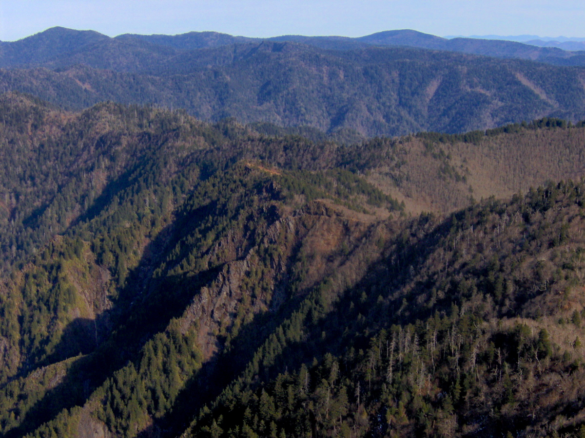 Jagged V-shaped ridges comprise the aftermath of the violent, billion-year history of the Great Smoky Mountains. This view is from the Jumpoff, a cliff on the northeastern slope of Mount Kephart.